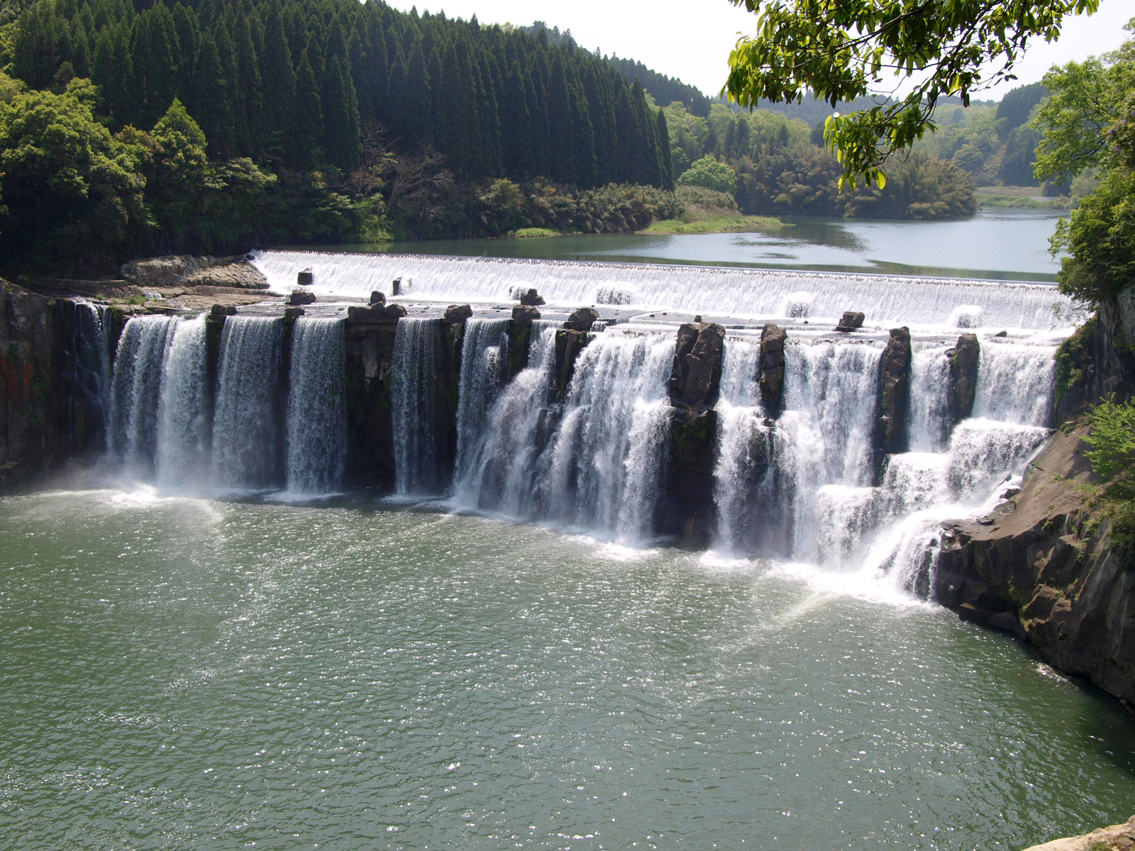 Chinda Fall, Ono Town, Bungo Ono City, Oita Prefecture